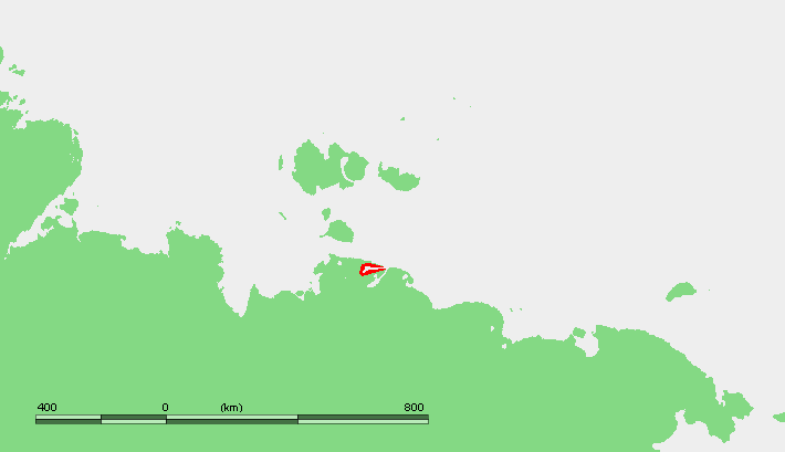 location map